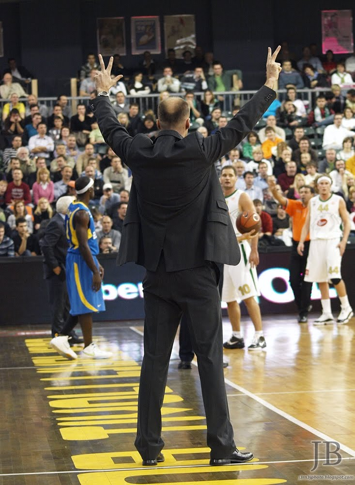 KK Union Olimpija vs Maccabi Tel Aviv in Hala Tivoli, Euroleague 2009/10